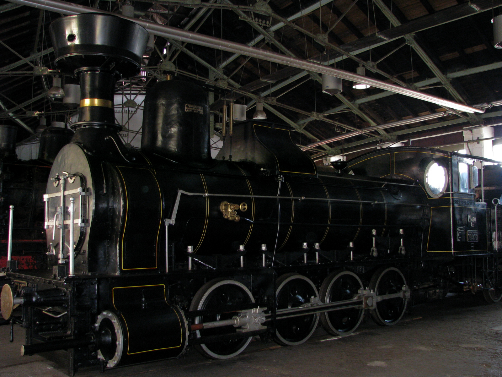 Freight locomotive kkStB 73.372 in Railway Museum of the Slovenian Railways